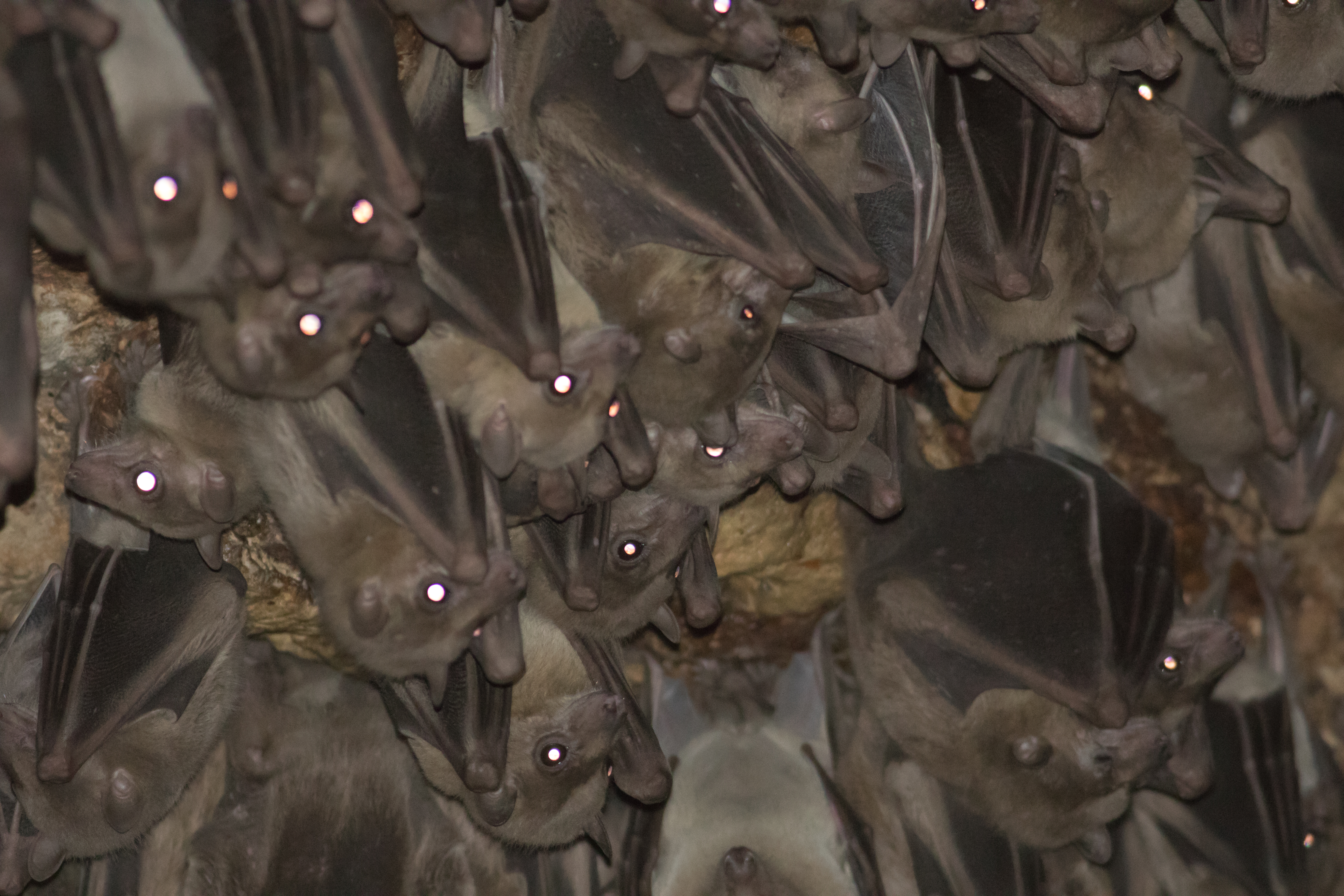 Rousettus aegyptiacus. photo taken at Ha-Teomim cave - Israel.